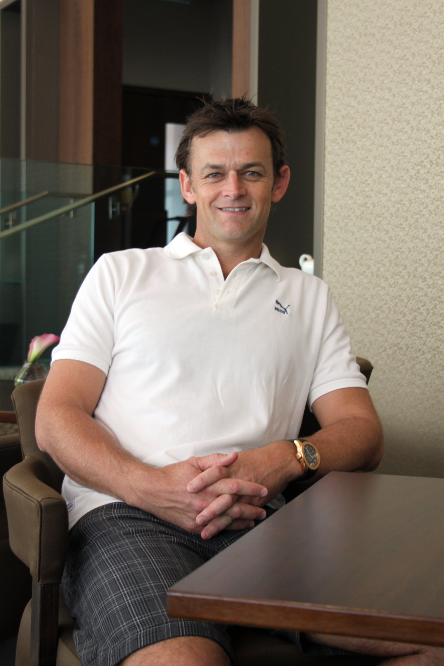 Adam Gilchrist, ex-Australian opening batsman and wicketkeeper